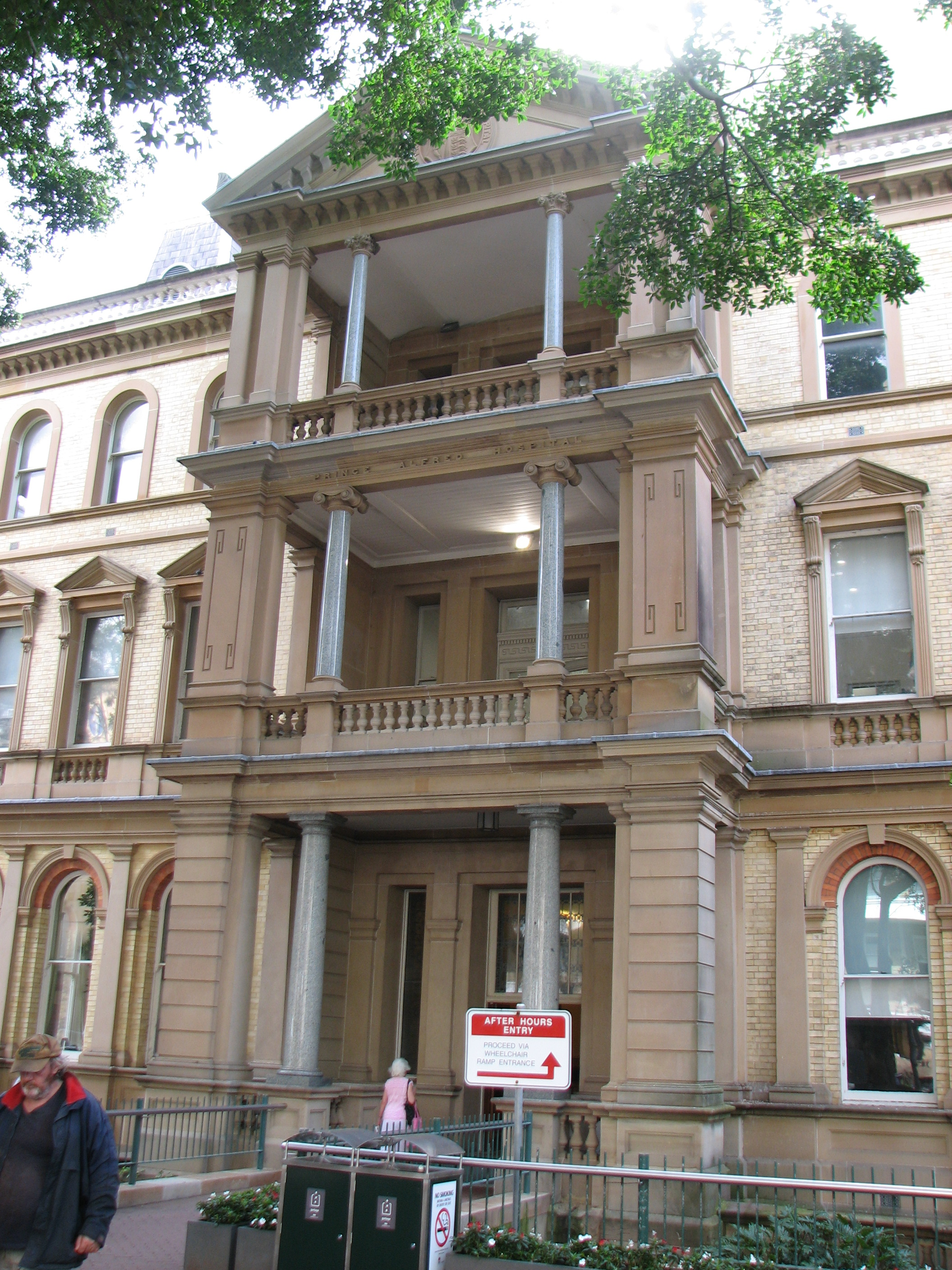 The Albert and Victoria Pavillons flank the Main Administration Building. These buildings are on the NSW Heritage Register